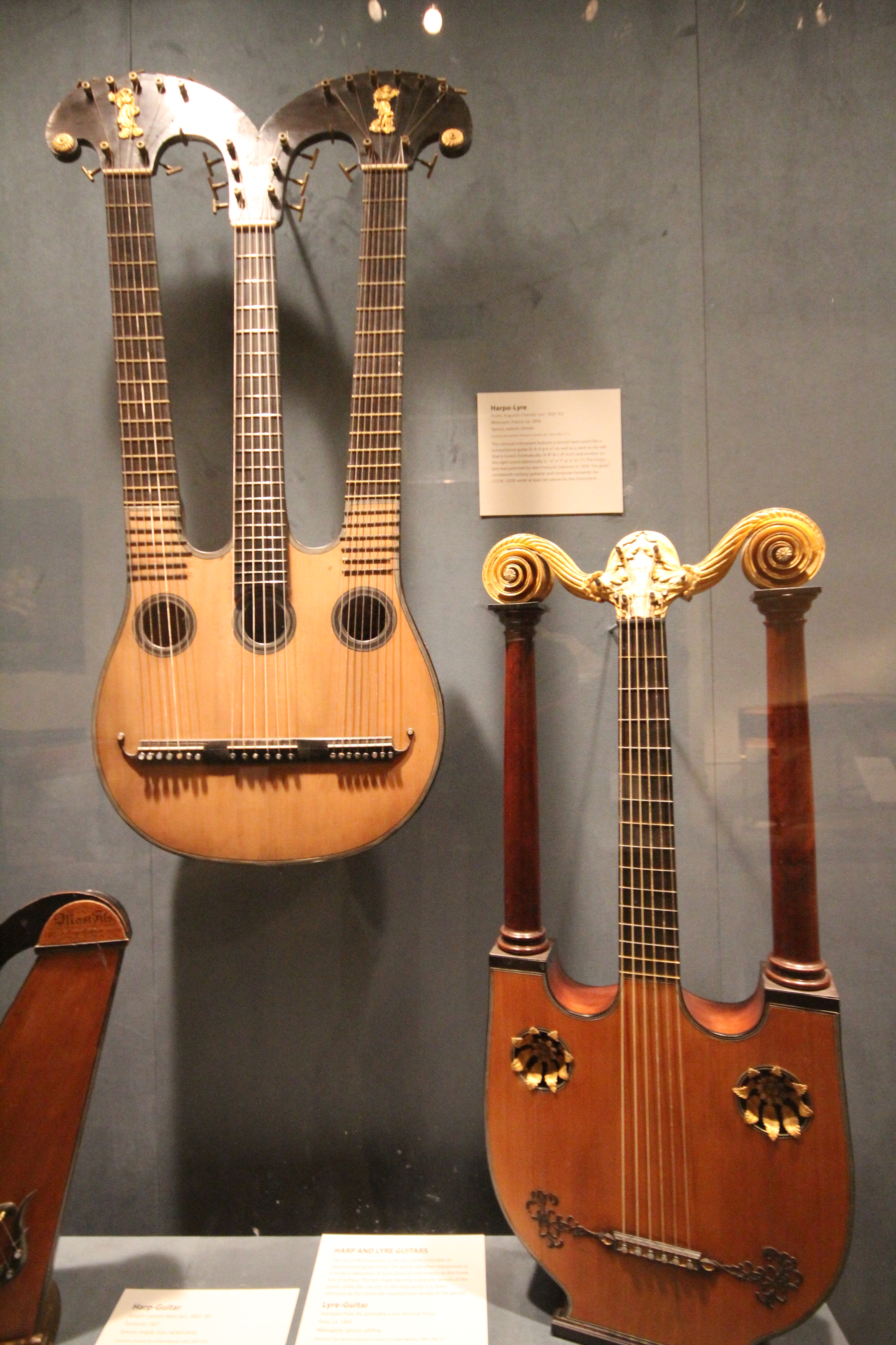 The Met, NYC Harpo-lyre (ca.1830), André Augustin Chevrier Harpo-lyre André Augustin Chevrier Accession Number: 1992.117.1, .2 Date: ca. 1830 Geography: Mirecourt, France Medium: Spruce, walnut, ormolu Dimensions: Total L. approx. 99 cm (39 in.); String L. (center) 65 cm (25 9/16 in.); String L. (sides) 70 cm (27 9/16 in.) Classification: Chordophone-Lute Credit Line: Purchase, Mr. and Mrs. Thomas A. Cassilly Gift, 1992 This artwork is currently on display in Gallery 684 Lyre Gutiar (ca.1805), Pons fils (Joseph Pons) Lyre Guitar Pons fils Accession Number: 1998.121 Date: ca. 1805 Geography: Paris, France Medium: Mahogany, spruce, gilding Dimensions: H. 87 cm. (34 1/4 in.); Max. W. 36.5 cm. (14 3/8 in.); String L. 64 cm. (25 3/16 in.) Classification: Chordophone-Lute Credit Line: Purchase, Clara Mertens Bequest, in memory of André Mertens, 1998 This artwork is currently on display in Gallery 684